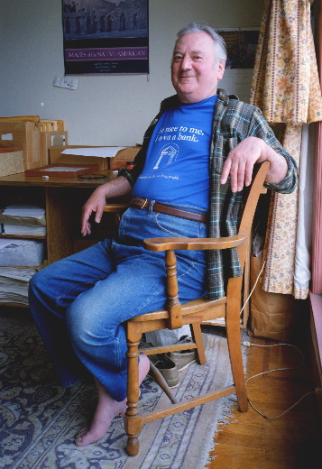 Color photograph of folklorist Archie Green